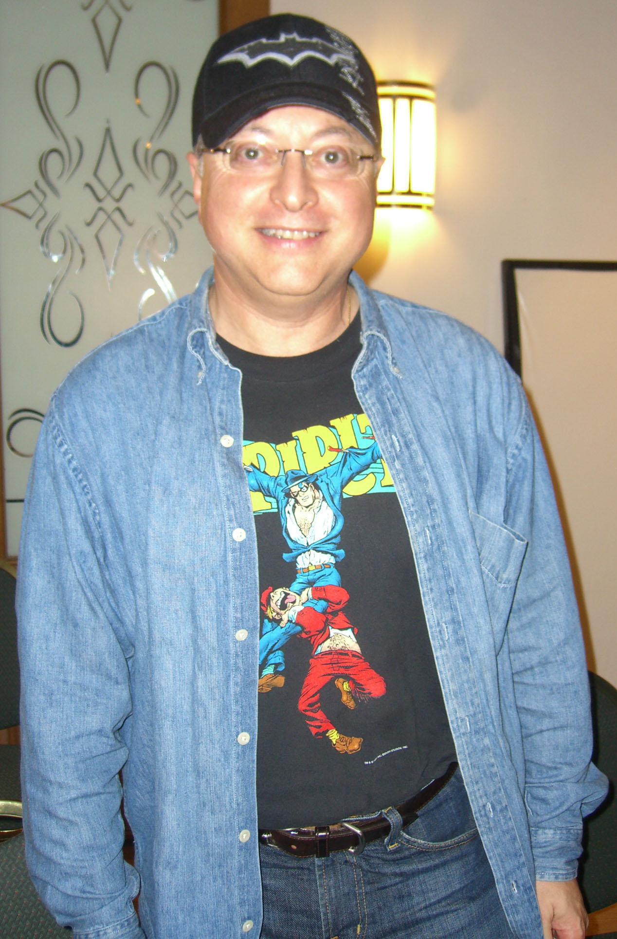 Film producer Michael Uslan at the November 2008 Big Apple Convention in Manhattan.